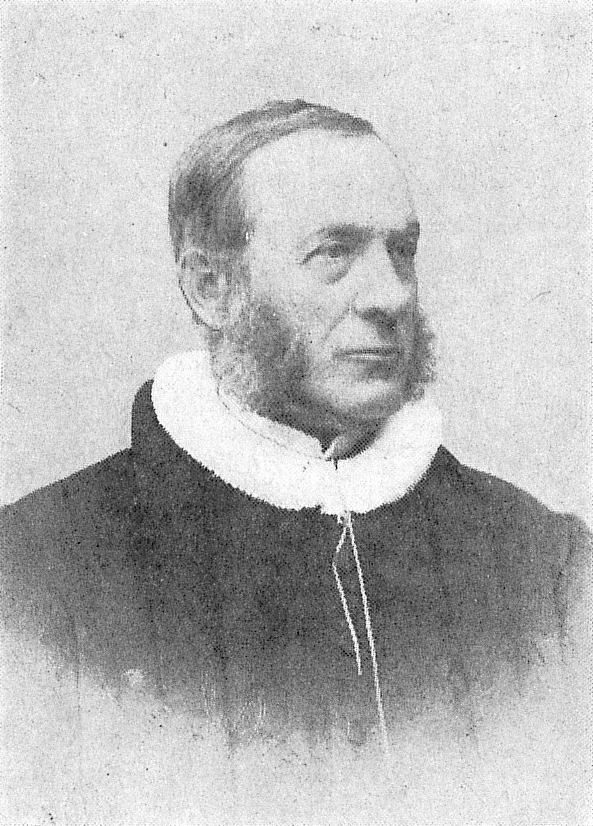 Nils Astrup (1843-1919), Norwegian bishop and missionary to Zulu, South Africa.